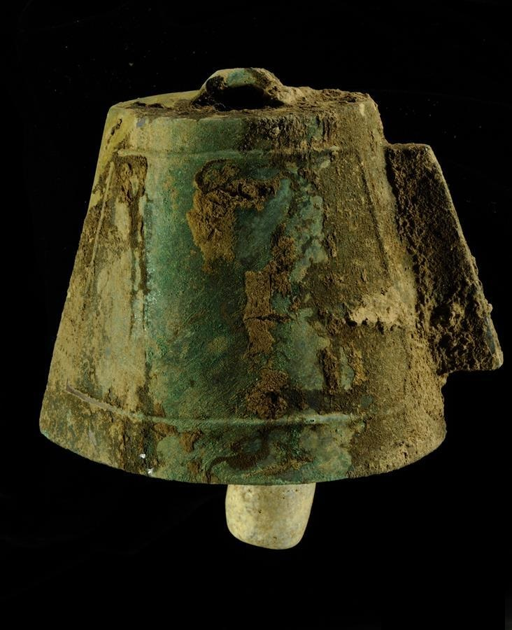 Chinese bronze bell (b.c. 1780 - b.c. 1521) from Heinan The tongue was made by jade.